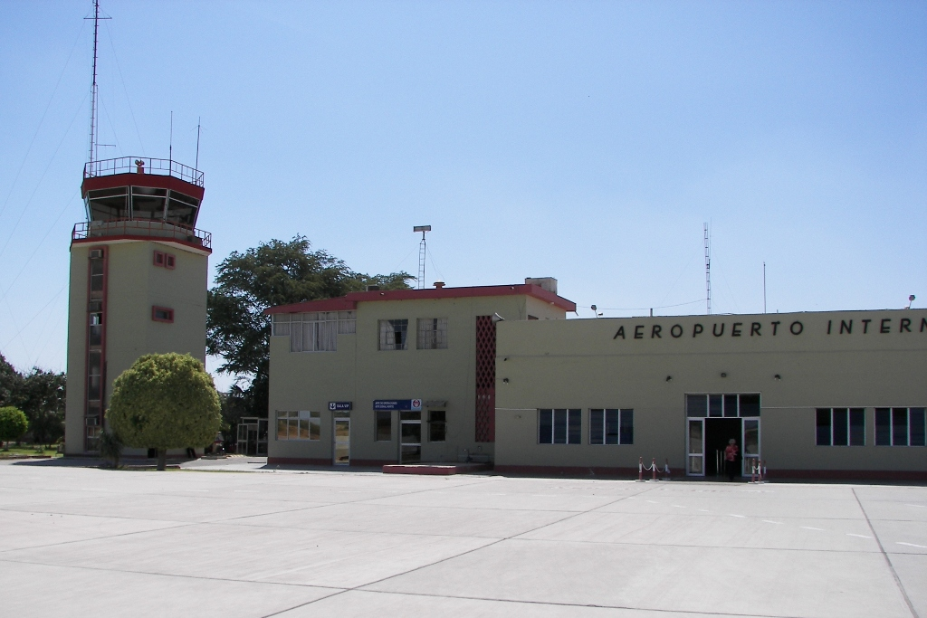 Piura airport terminal